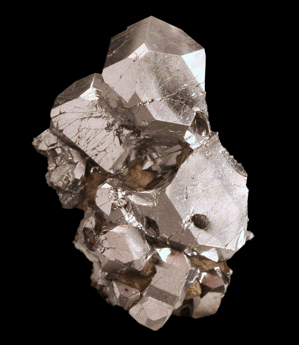 Cluster of silver sperrylite crystals. 14 x 8 x 7 mm. RFC T1477.